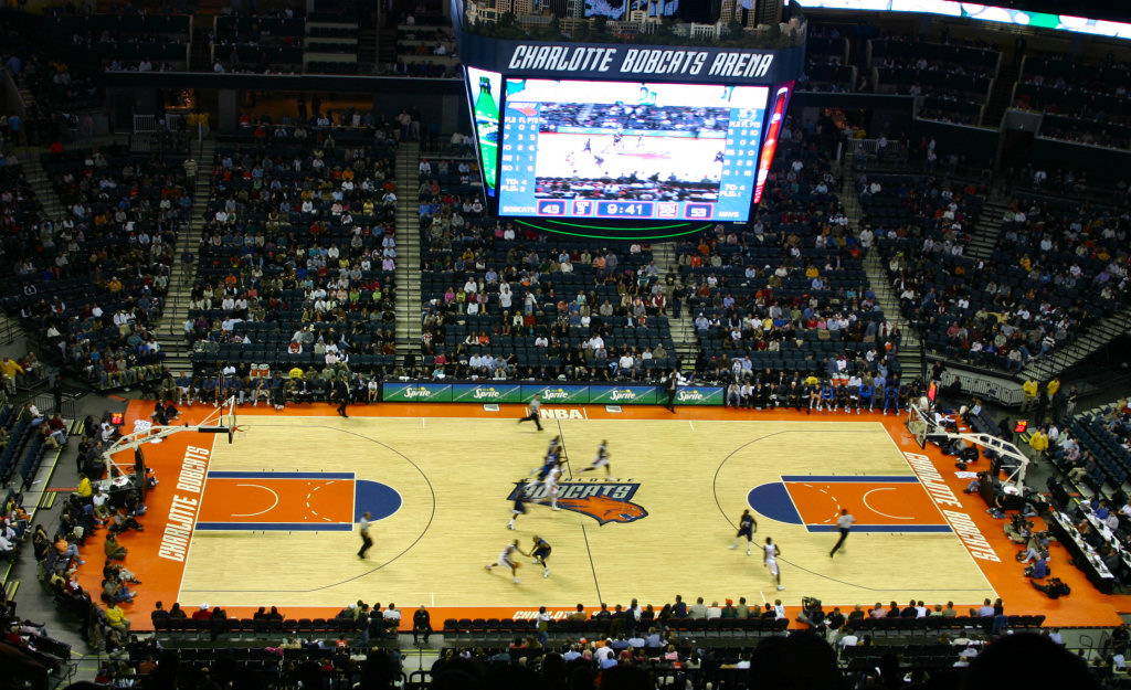 Charlotte Bobcats Arena; a NBA game between the bobcats and the Dallas Mavericks.